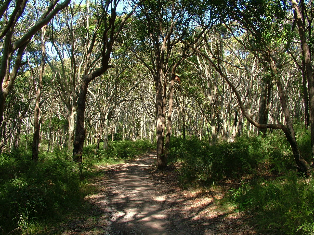 One of the typical forests in Glenrock National Conservation Area